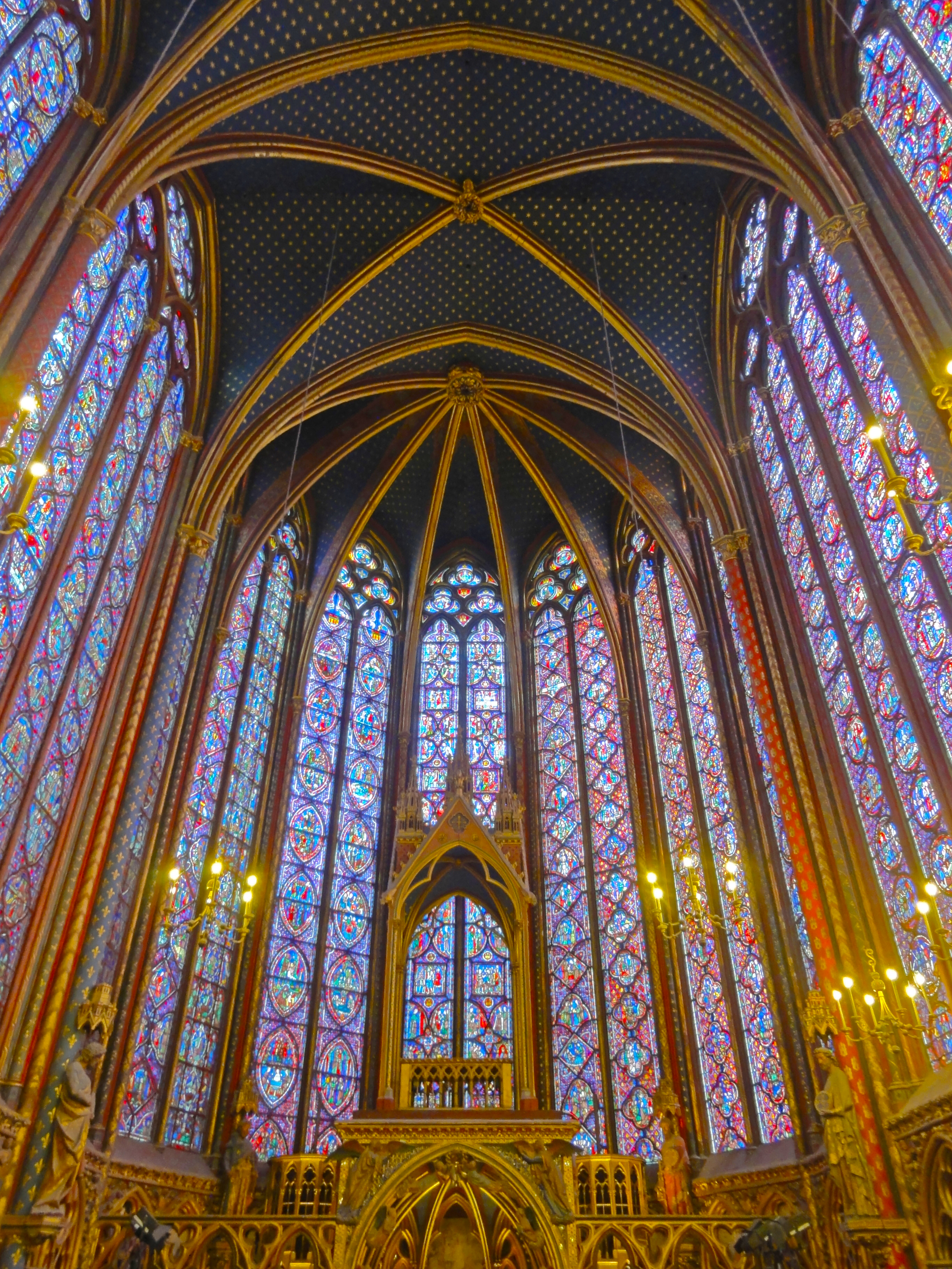 Sainte Chapelle, Paris